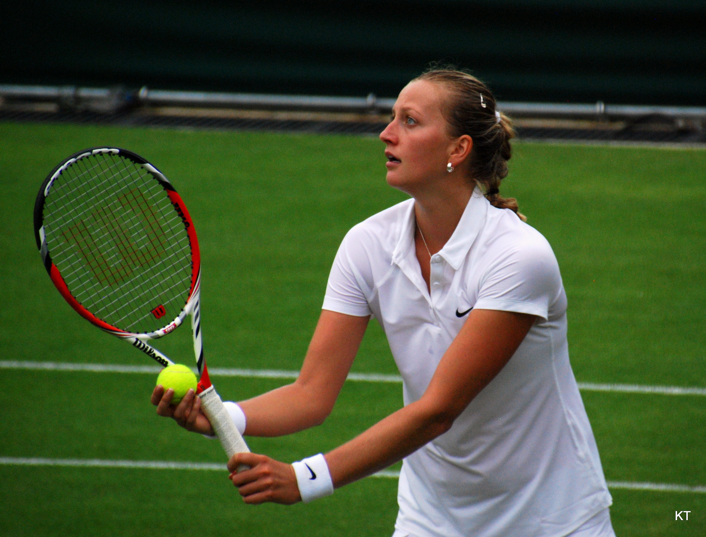 Petra Kvitova during her first round match with Andrea Hlavackova. Petra won this and her next six matches, to become Wimbledon champion for a second time. Day 1 of Wimbledon 2014.